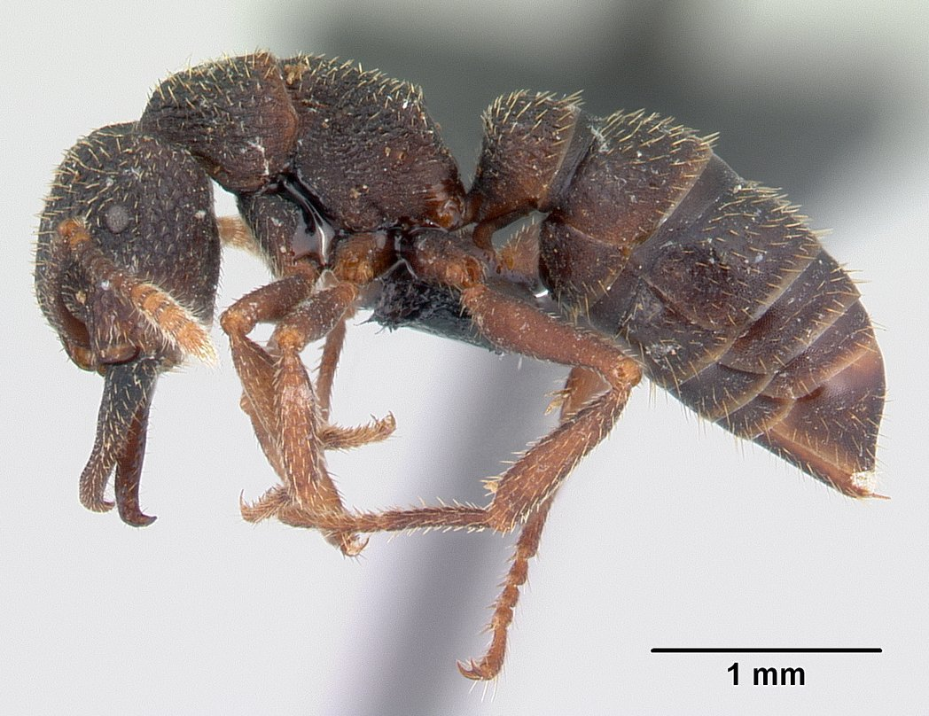 Profile view of ant Mystrium oberthueri specimen casent0141843.